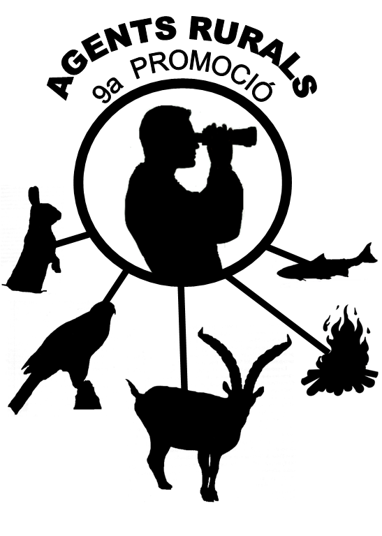 Unofficial logo promoting the 9th rangers